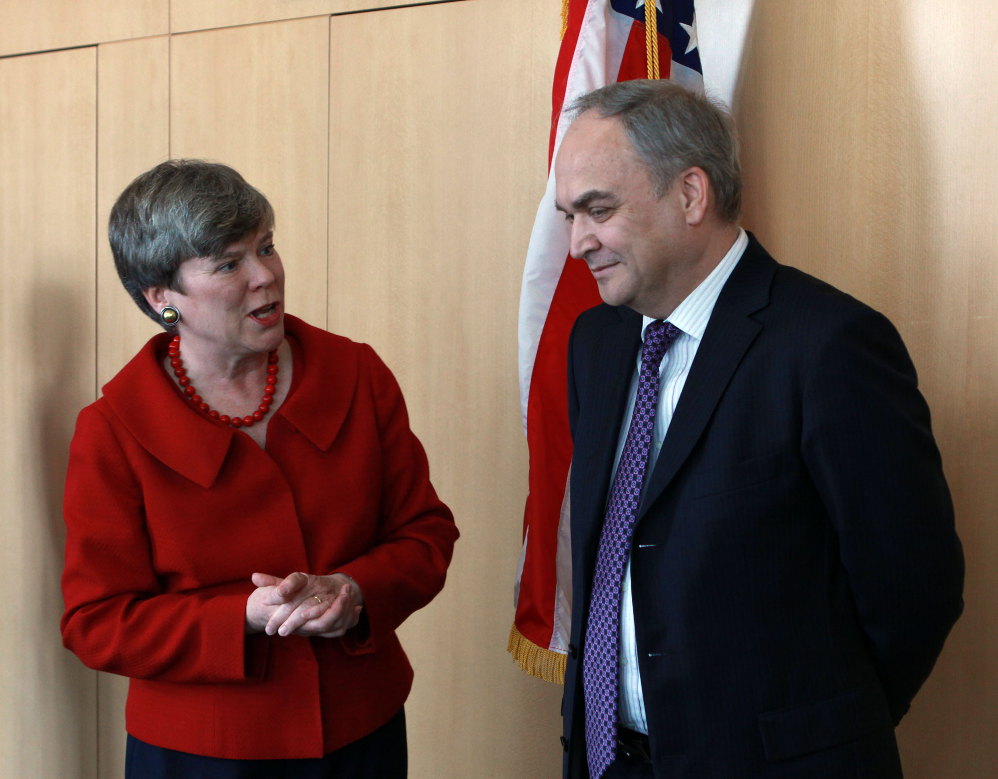 Heads of delegation, Rose Gottemoeller, U.S. Assistant Secretary of State for Verification, Compliance, and Implementation, and Ambassador Anatoly Antonov, Director of the Department of Security and Disarmament Affairs, Foreign Ministry of the Russian Federation, speak with the press on April 9, 2010 before the closing plenary of the new START negotiations. Closing Plenary of the New Start Negotations: U.S. and Russian New START Delegations held their closing plenary on April 9, 2010 in Geneva, Switzerland, where many of the negotiations on the new arms control treaty took place over the course of the past 11 months. Heads of delegation, Rose Gottemoeller, U.S. Assistant Secretary of State for Verification, Compliance, and Implementation, and Ambassador Anatoly Antonov, Director of the Department of Security and Disarmament Affairs, Foreign Ministry of the Russian Federation, returned to Geneva after attending the April 8 signing ceremony in Prague, to chair the final plenary. The closing plenary took place at the Permanent Mission of the United States to the United Nations and other International Organizations in Geneva, where many of the earlier negotiating sessions were also held. U.S. Mission Photo: Eric Bridiers